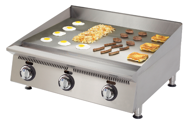 Commercial Griddle, Cooking